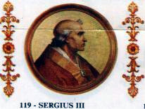 Portrait of Pope Sergius III in the Basilica of Saint Paul Outside the Walls, Rome